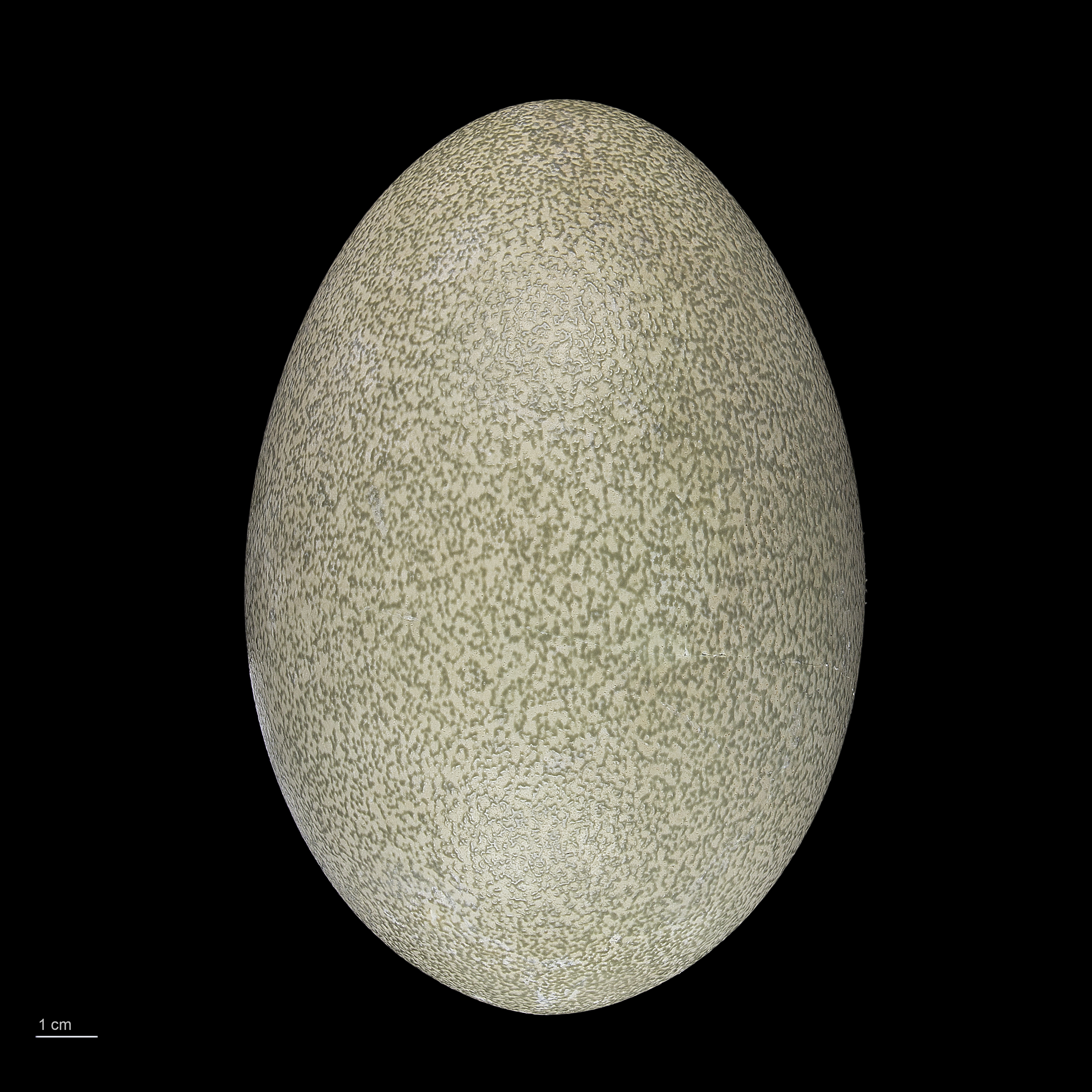 Egg of southern cassowary Collection of Jacques Perrin de Brichambaut.